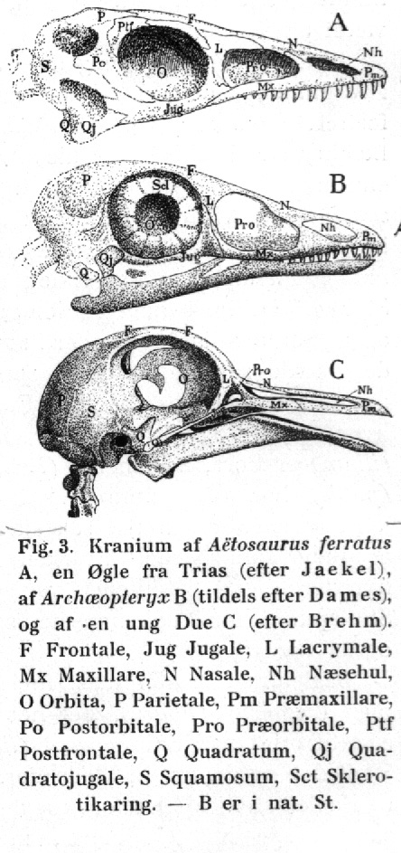 Skull reconstruction of Aëtosaurus, Archaeopteryx, and a pigeon, 1916